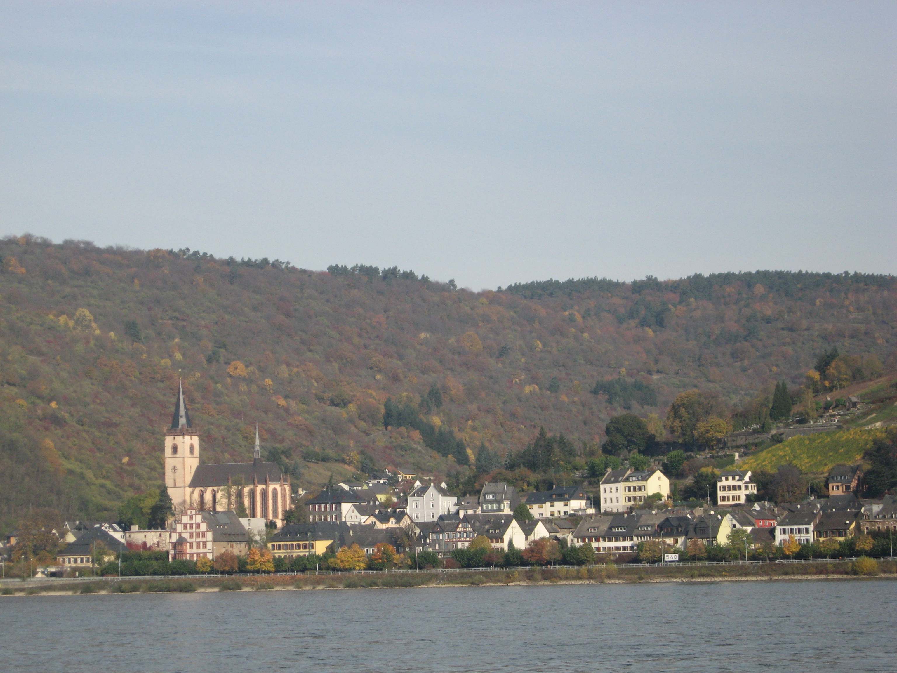 Lorch (Rheingau), Germany.